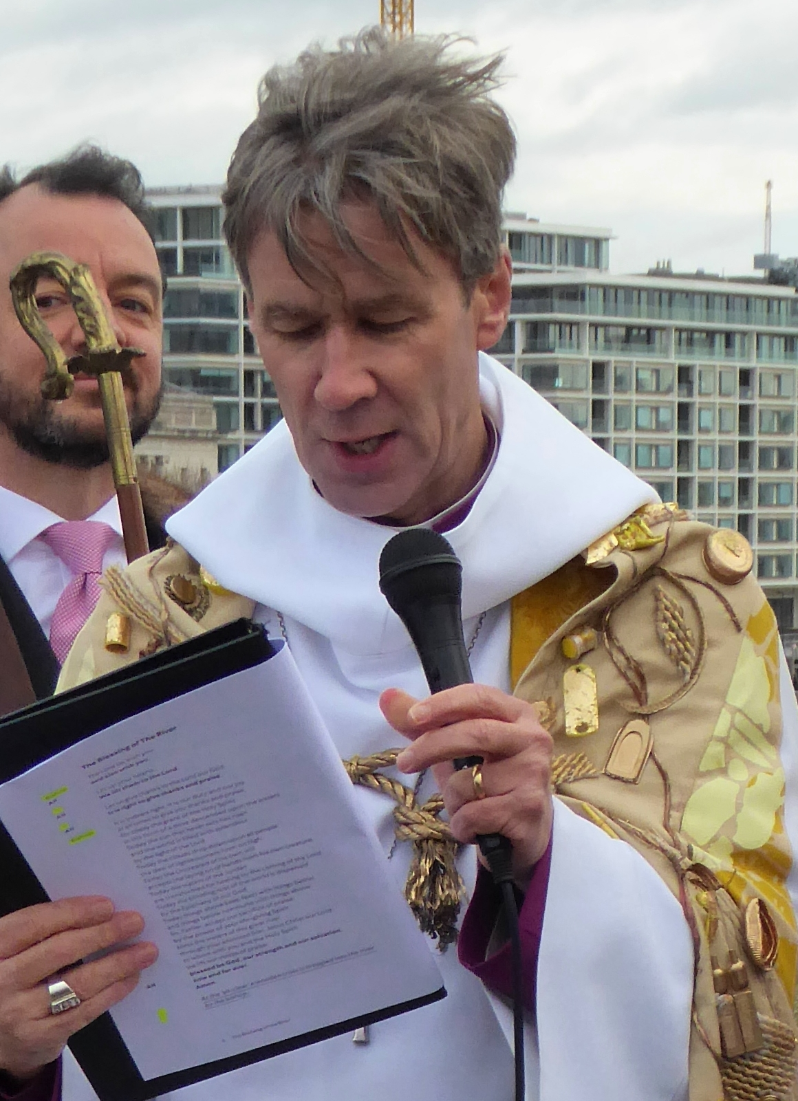 The Bishop at Lambeth, Tim Thornton, overseeing part of the 2019 Blessing the Thames ceremony at London Bridge.